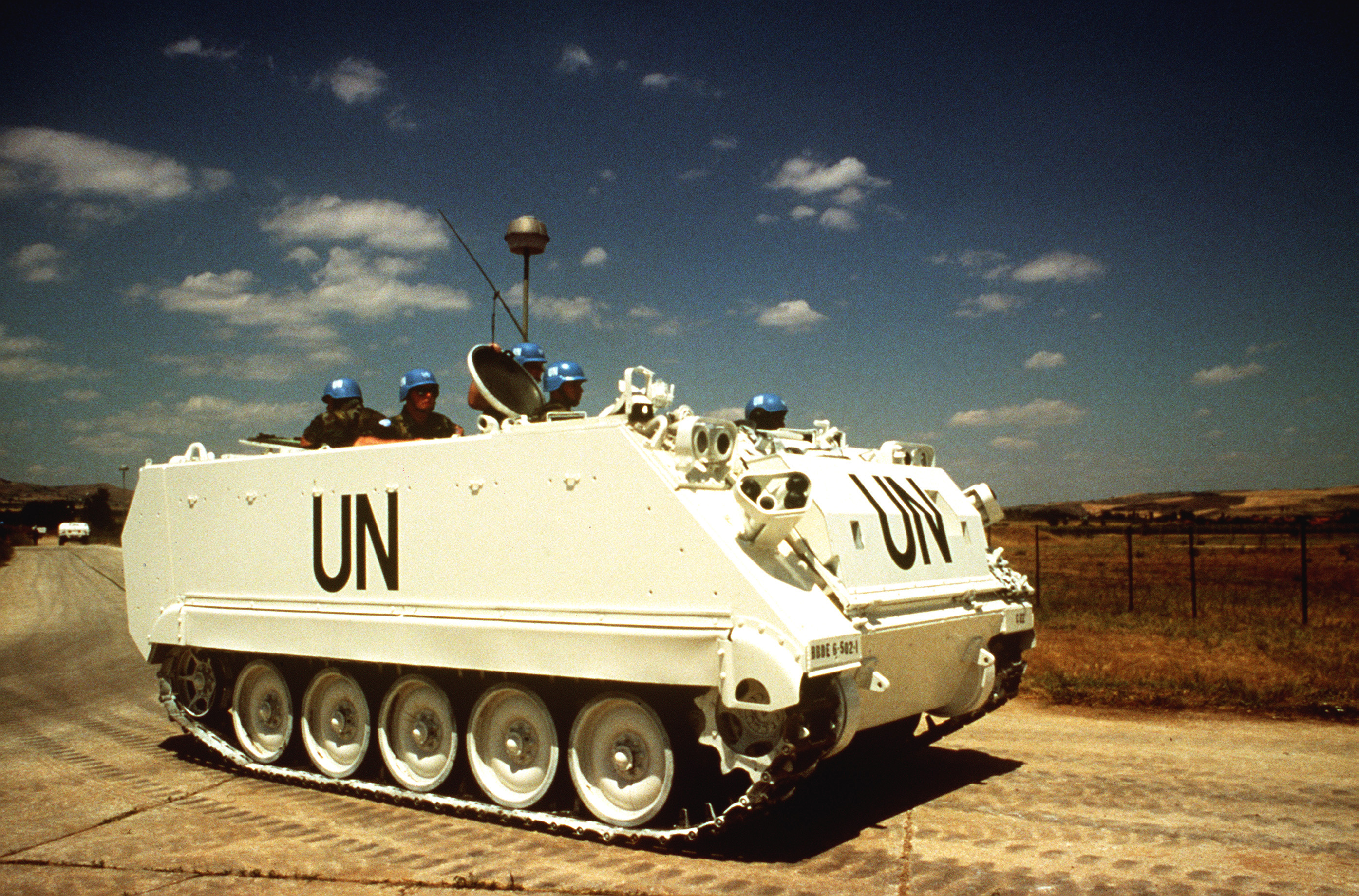 American soldiers from the 6/502nd Infantry Brigade, Berlin, Germany, train on a United Nations Armored Personnel Vehicle in an effort to prepare for their role as UN peacekeepers.